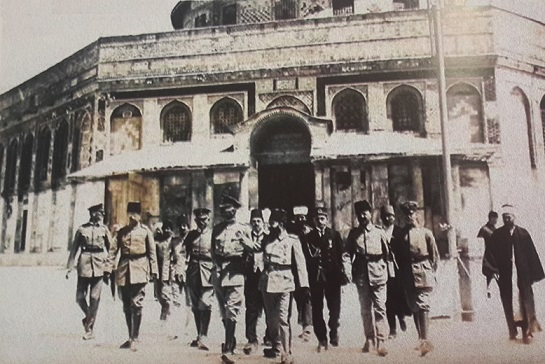 Comander of the 4th Ottoman army and Minister of the Navy Ahmed Cemal Paşa accompaning German General Erich von Falkenhayn infront of the Dome of the Rock in 1917.